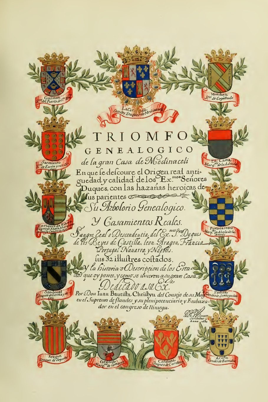 Title page of a mss written by HG H Wilmart (Brussels, 1680).